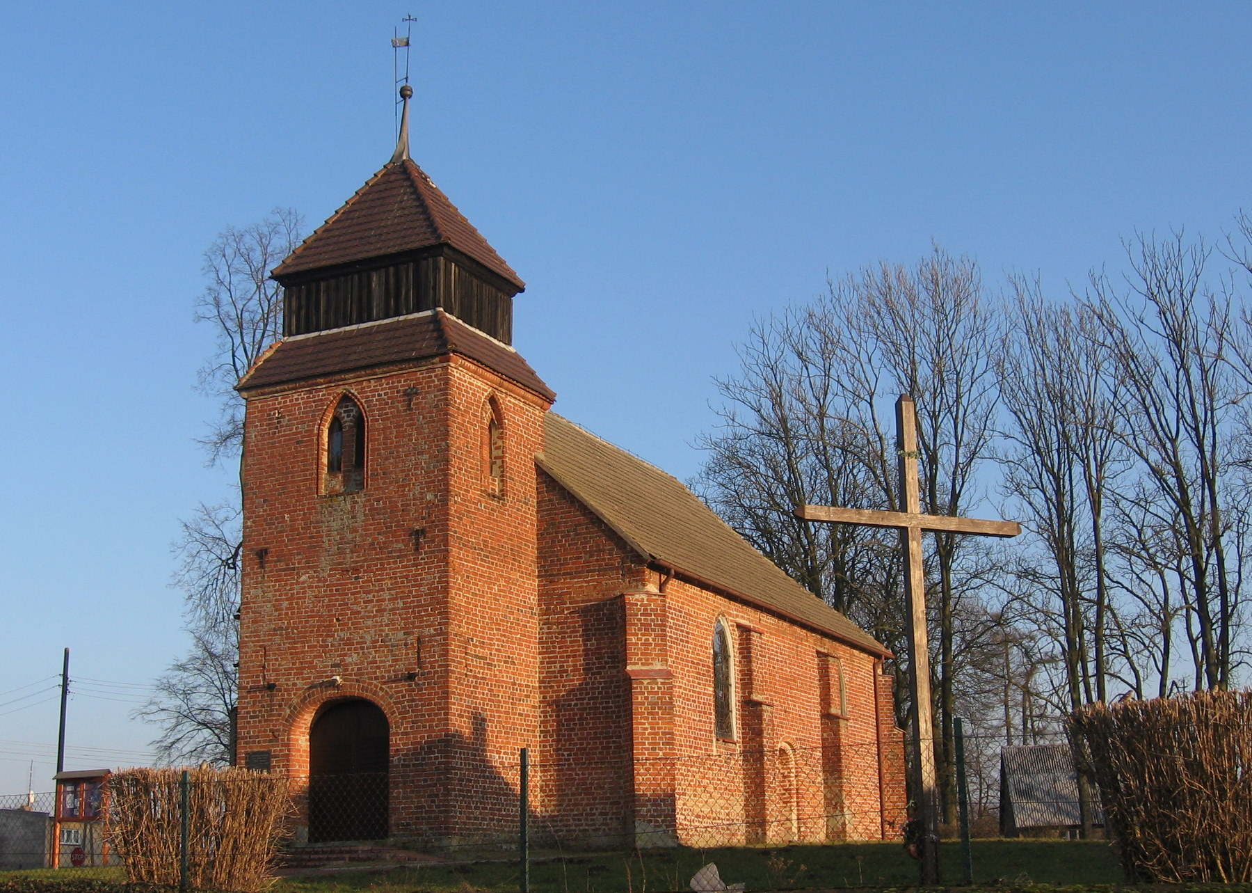 Sacred Heart Catholic Church in Radowo Wielkie, Poland